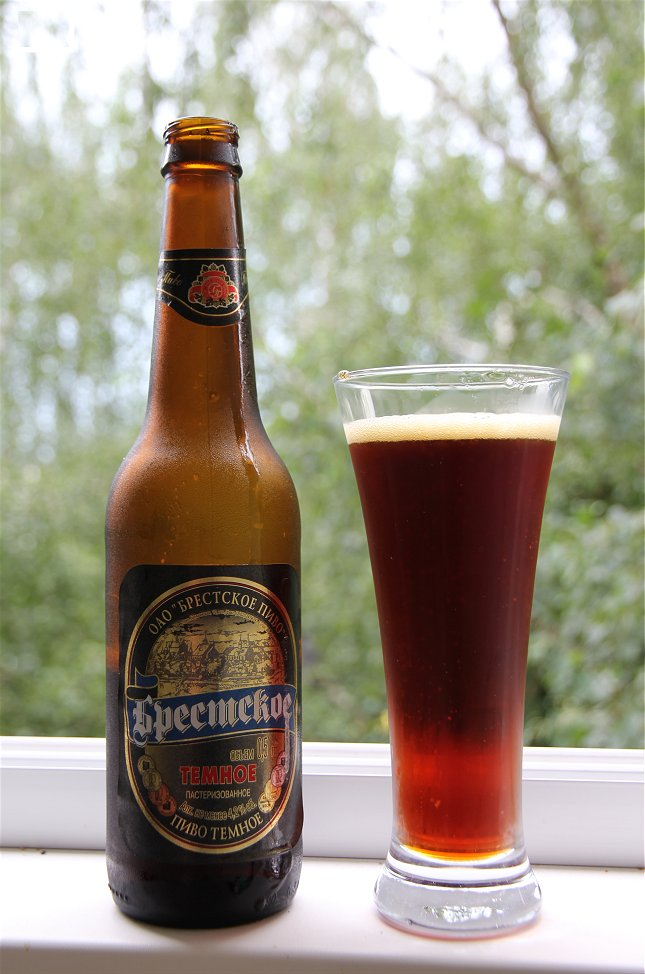 Example of dark beer from the brewery of the city of Brest, Belarus (ОАО Брестское пиво, Brestskoje pivo, Belarusian: Берасьцейскае піва, Berastseiskaje piva).